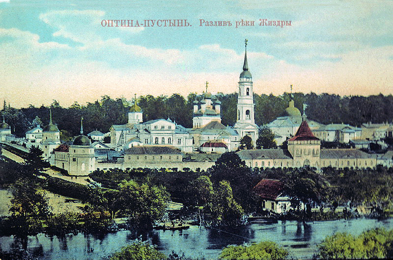 Optina Pustynia and Zhizdra River's flood